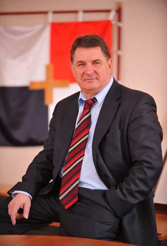 Viktor Reschetniak Mayor of Vyshhorod (2011)